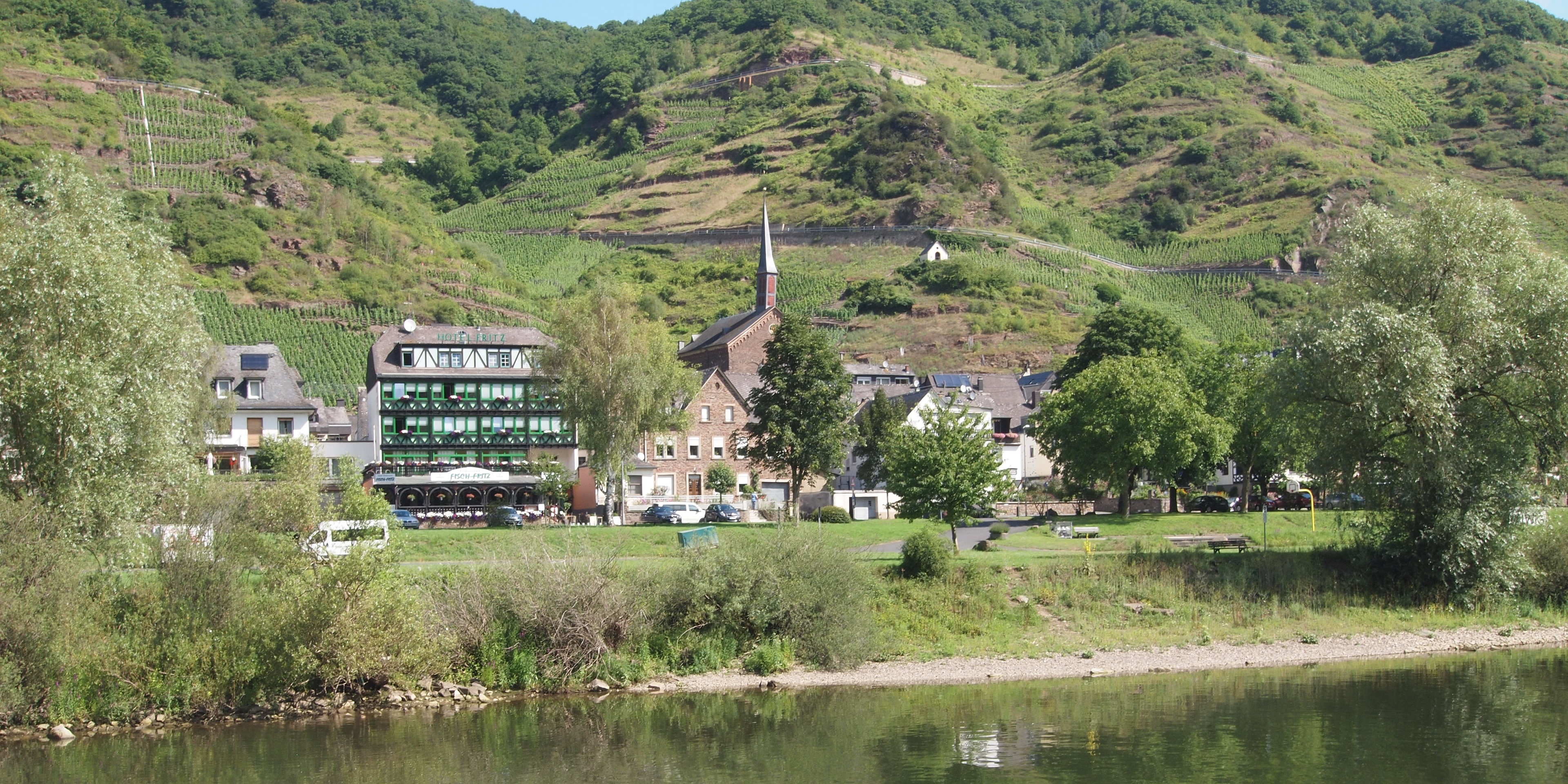 Valwig village on the Mosel river in Germany